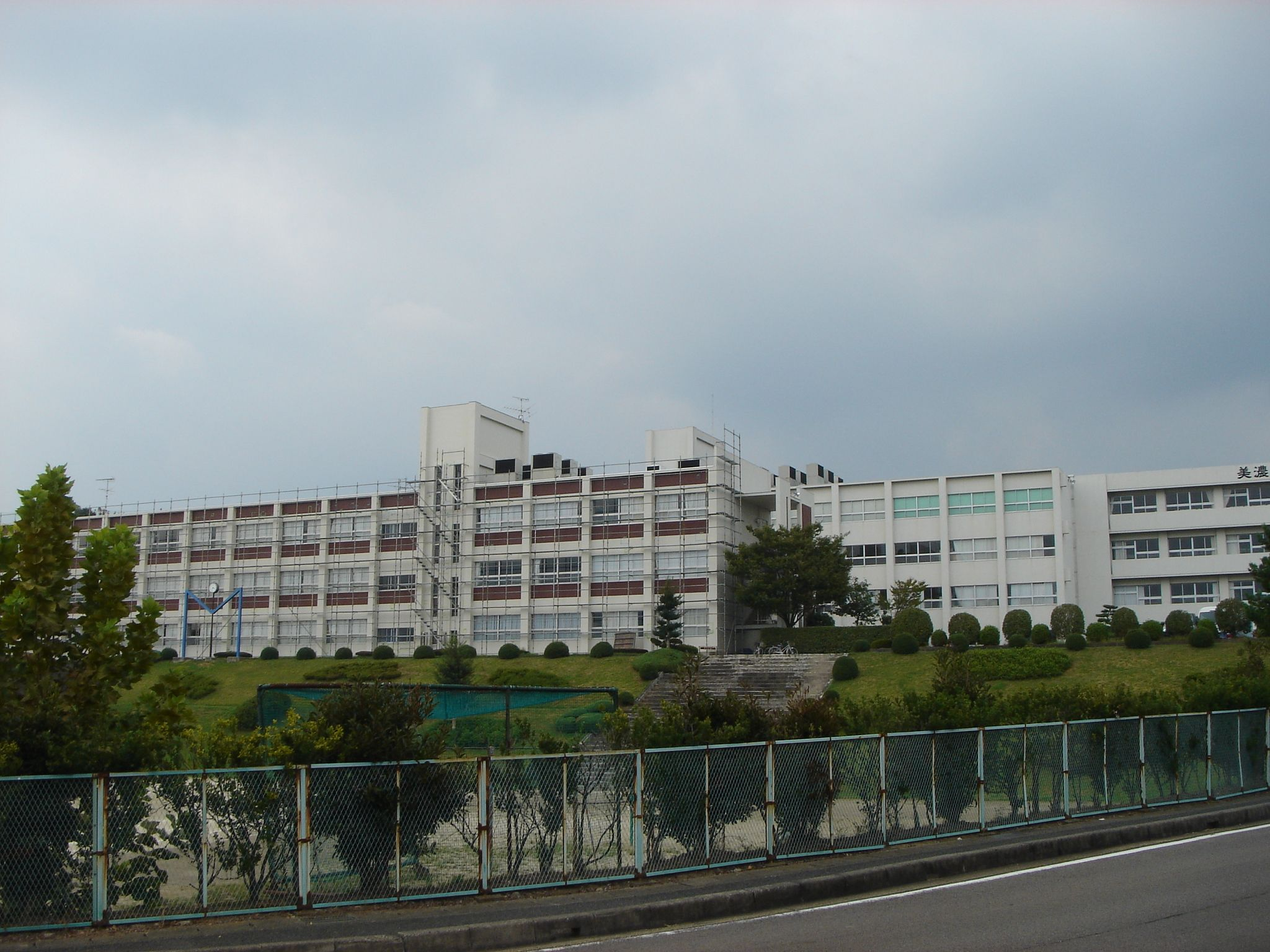 Minokamo Junior High and High School(美濃加茂中学高等学校),Minokamo,Gifu,Japan(岐阜県大垣市)で撮影